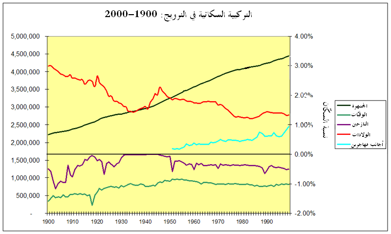 Basic demographics for Norway, 1900-2000